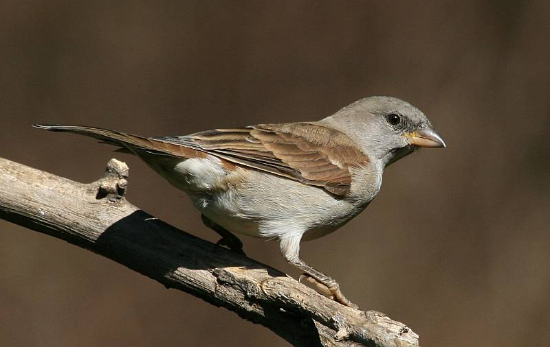 Southern Grey-headed Sparrow (Passer diffusus) non-breeding adult at Pietermaritzburg, South Africa